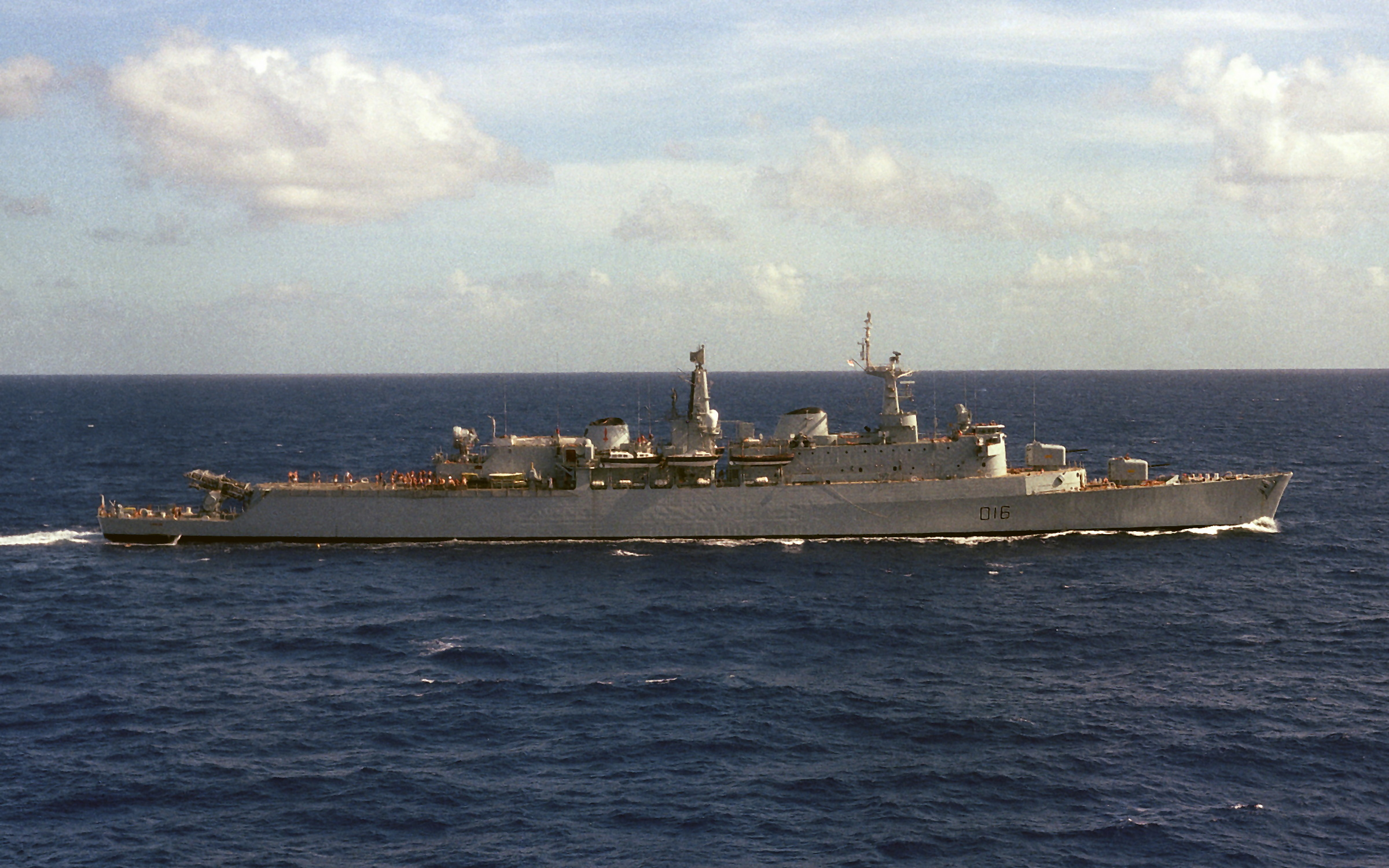 The British destroyer HMS London (D16) underway in 1981.